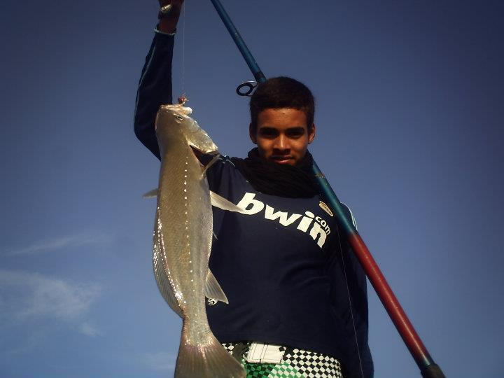 Fishing in Tarfaya, Morocco.